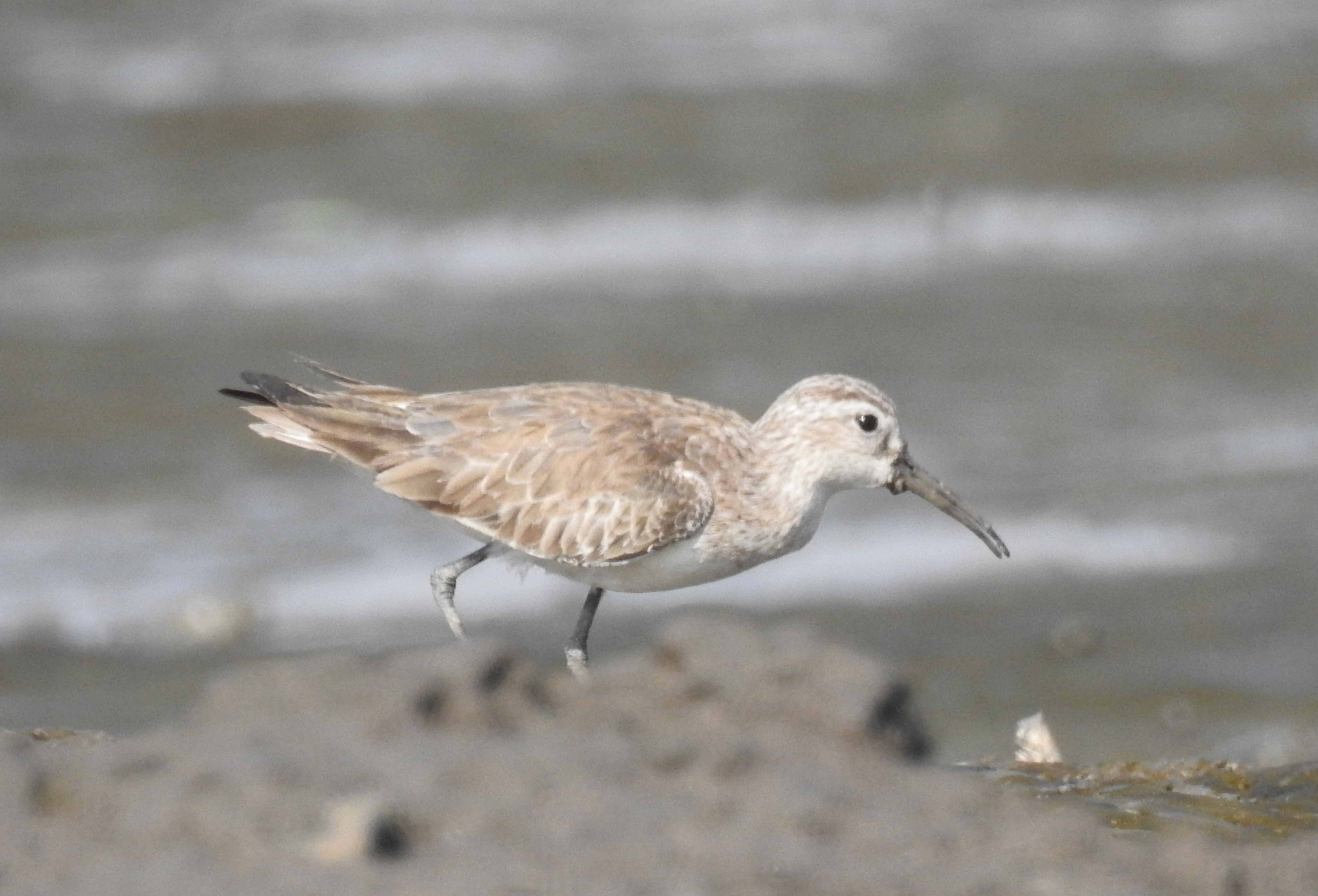 Curlew Sandpiper Calidris ferruginea. Photographed by Dr. Raju Kasambe at Mahul-Sewri Mudflats, Mumbai. This is an Important Bird area (IBA) as designated by BNHS and BirdLife International.